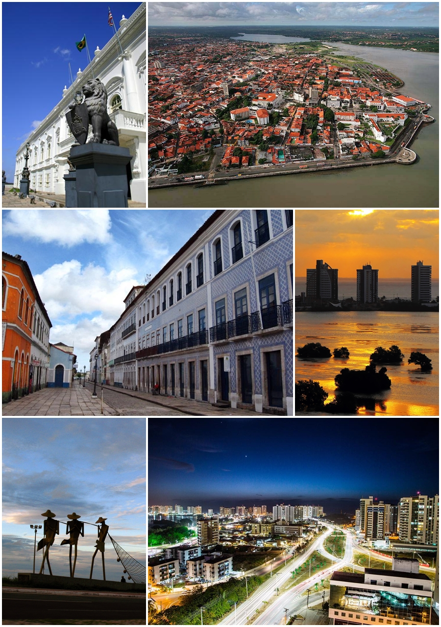 Images of São Luís do Maranhão, Brazil.